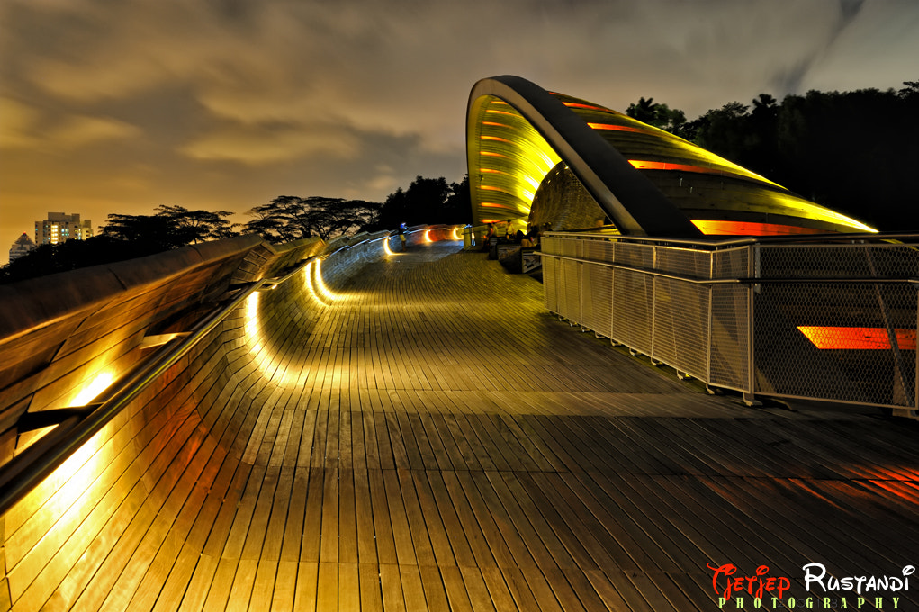 500px provided description: What makes this pedestrian bridge unique is its stunning wave-like structure made up of seven undulating curved steel ribs that alternately go above and below its deck. The curved ribs form alcoves that function as shelters with seats within, making them nice places to hang out. Thousands of yellow balau wood slats were used to compose the deck. [#night ,#Singapore ,#Cityscape]